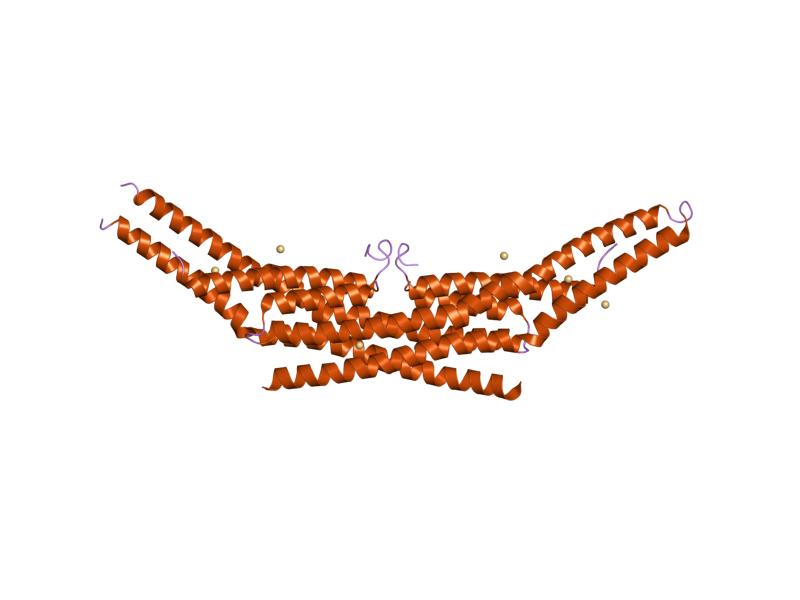 Cartoon representation of the molecular structure of protein registered with 1zww code.